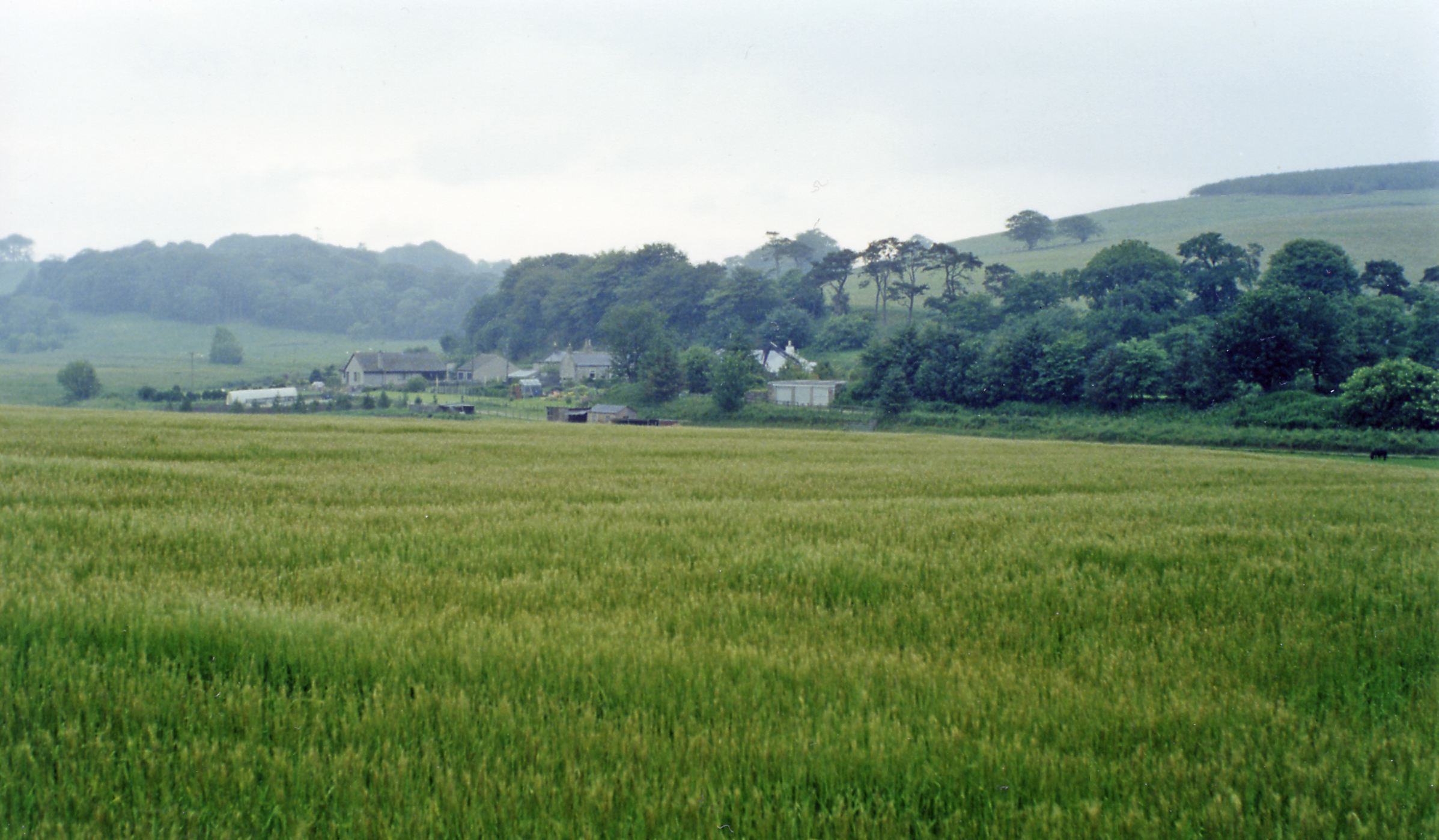 Site of Arnage station in valley of Ebrie Burn. View eastward from the road to Drumwhindle. Nowadays the Buchan Line Walkway follows along here the ex-GNofSR secondary main line from (Aberdeen) - Dyce - Ellon (to right) - Maud (to left) - Peterhead/Fraserburgh up this valley. Arnage station was closed 4/10/65, when the passenger services to Fraserbourgh and Peterhead ceased, although freight continued Maud - Peterhead until 7/9/70 and Dyce - Maud - Fraserburgh until 6/10/79.